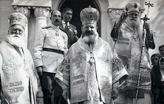 Boris III of Bulgaria in Vidin, Bulgaria